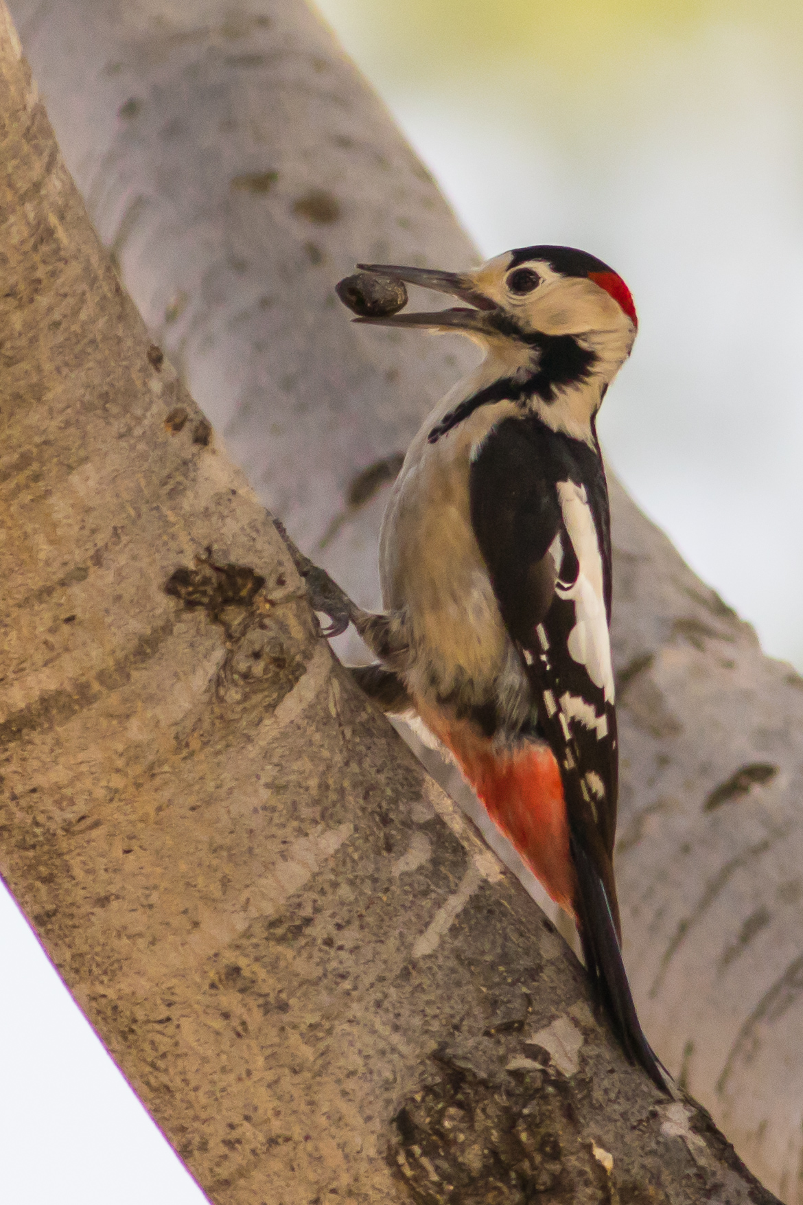 Dendrocopos syriacus, Ashkelon National Park, Israel.